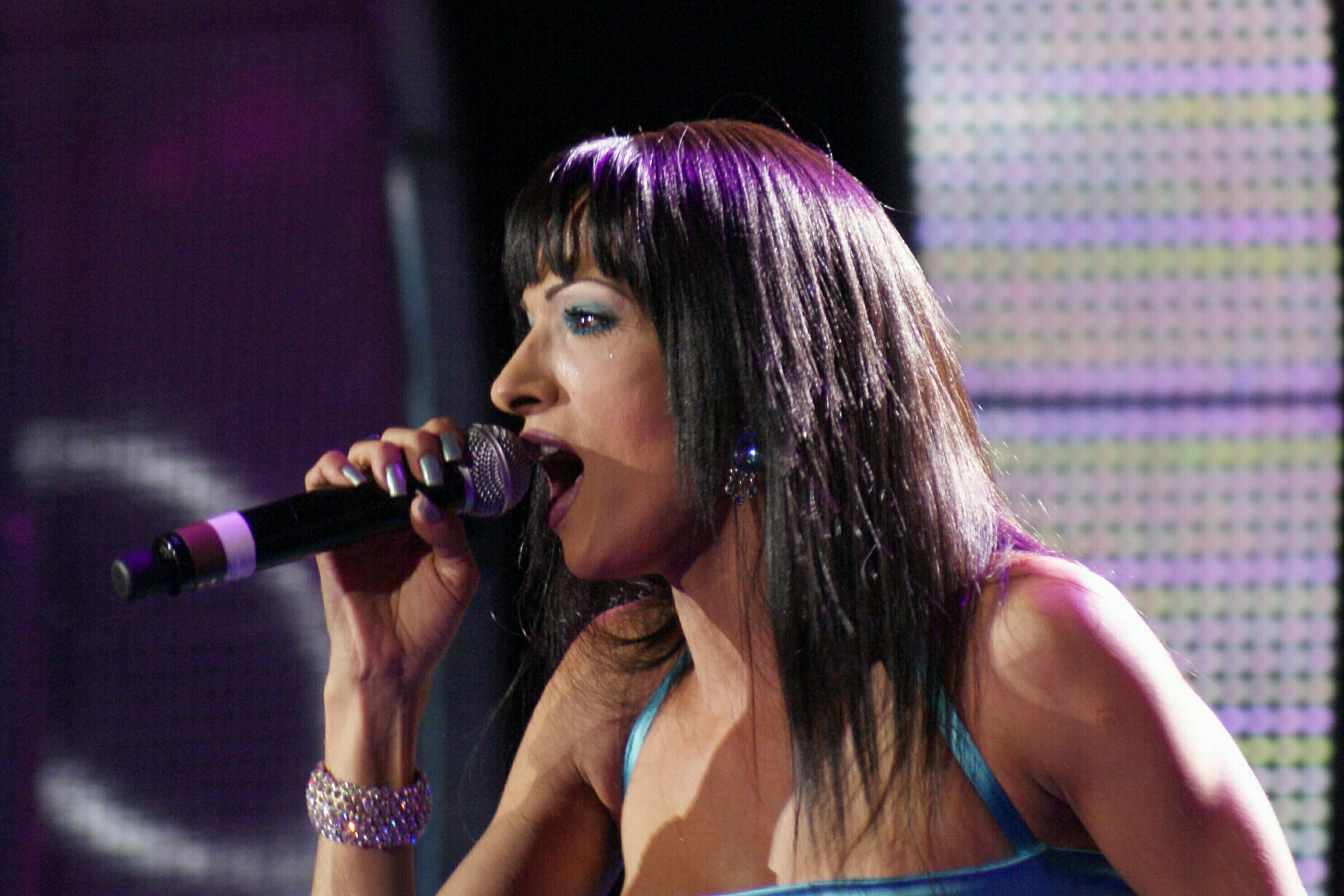 Singer Dana International on Eurovision Song Contest 2009.